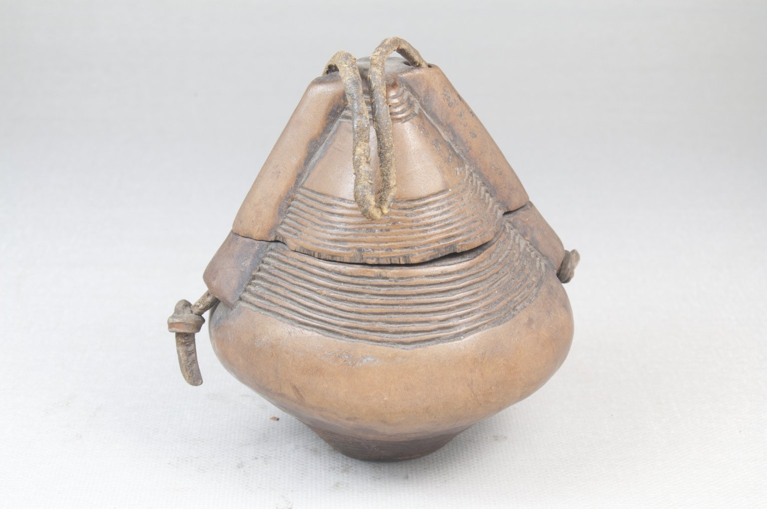 'Cafe au lait'-colored wooden flask. Pear-shaped box decorated with three incised bands of horizontal ribs, at top, waist, and narrowing foot. Knotted strip of hide drawn through two hollow cylinders following shape of upper body. CONDITION: Fair.